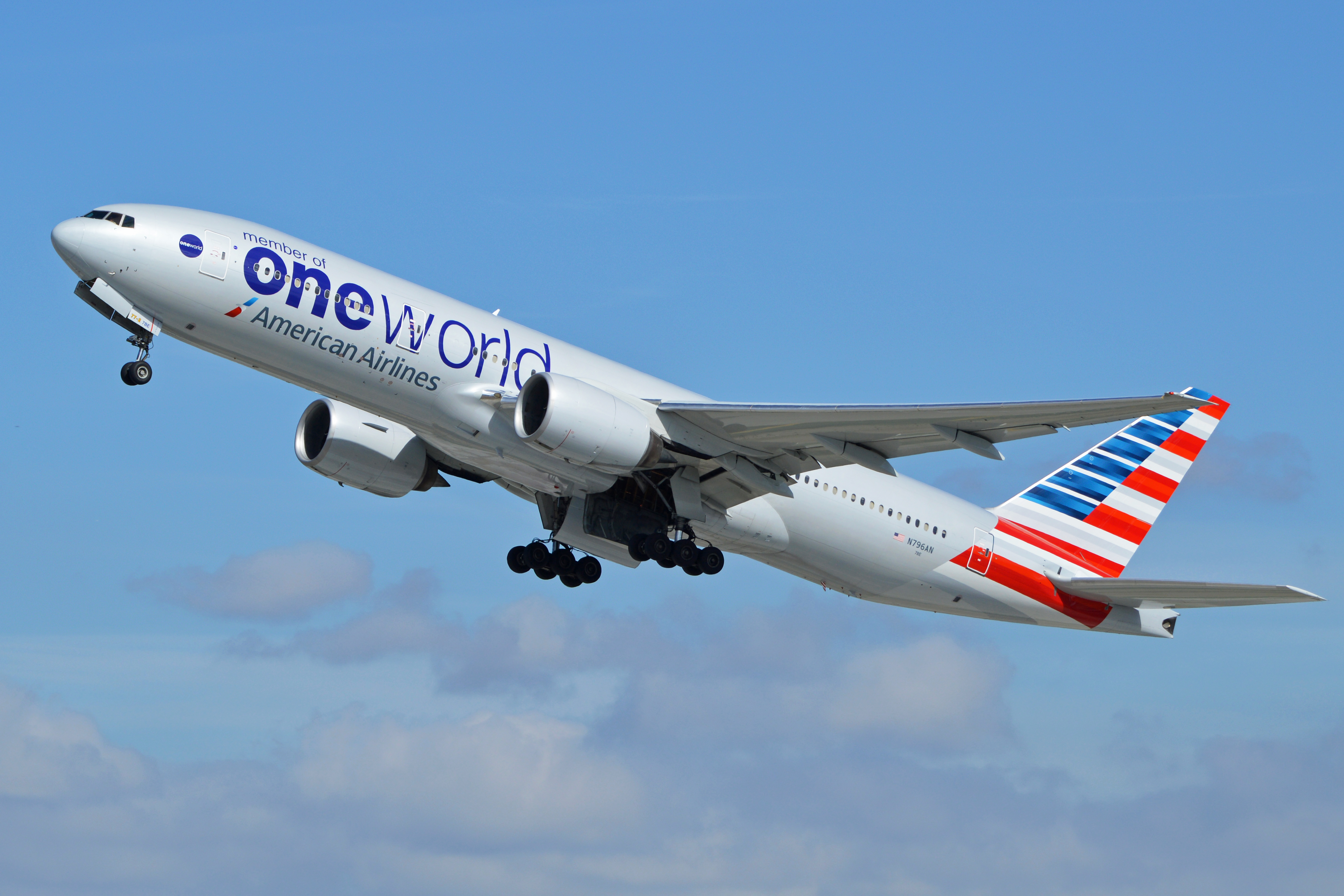 In 'Oneworld' colour scheme. c/n 30796, l/n 316. Built 2000. Seen departing LAX and taken from the Imperial Hill spotting location. Los Angeles, California, USA. 08-2-2014